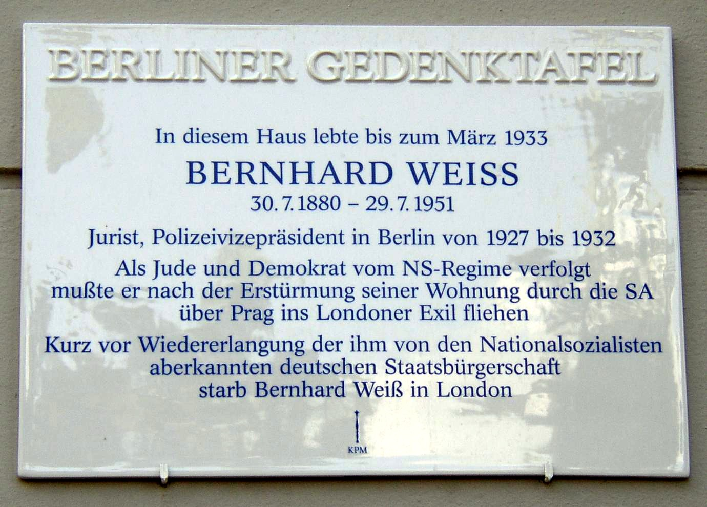 Berlin memorial plaque for Bernhard Weiß in Berlin-Charlottenburg, Germany